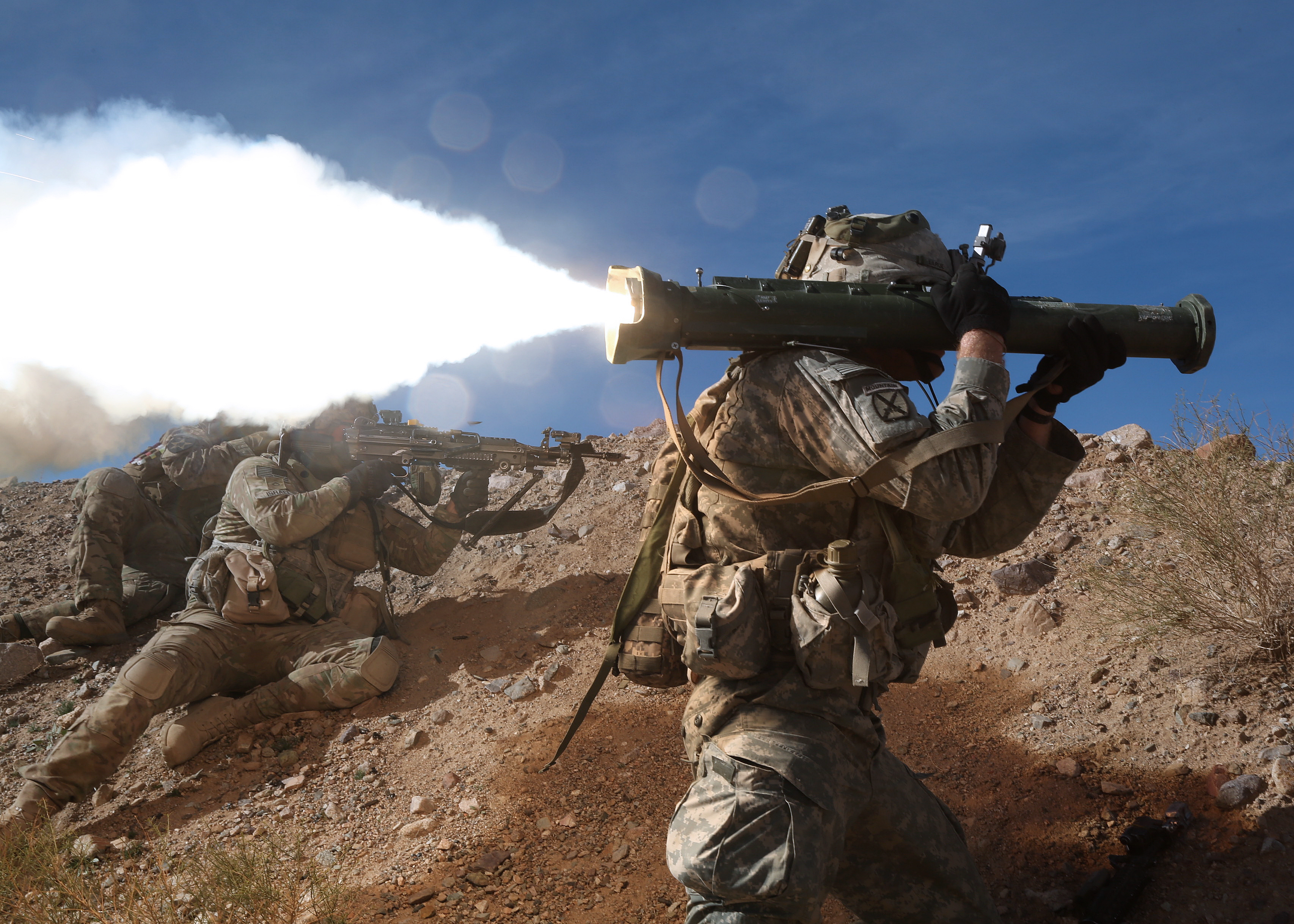 A U.S. Soldier assigned to 1st Battalion, 17th Infantry Regiment, 2nd Stryker Brigade Combat Team, 2nd Infantry Division, fires an M136E1 AT4-CS confined space light anti-armor weapon at the National Training Center as part of Decisive Action Rotation 16-03 in Fort Irwin, Calif., Jan. 21, 2016. This 15-day training period is to ensure a more comprehensive approach for Soldiers within the 2nd Stryker Brigade Combat Team, 2nd Infantry Division. (U.S. Army photo by Pfc. Daniel Parrott, Operations Group, National Training Center) Unit: Fort Irwin Operations Group DVIDS Tags: US; Fort Irwin; National Training Center; desert; America; 2 ID; Soldiers; California; infantry; Army; Training; 2nd ID; Parrott; DVIDS Frontpage; Pfc. Parrott; NTC 16-03